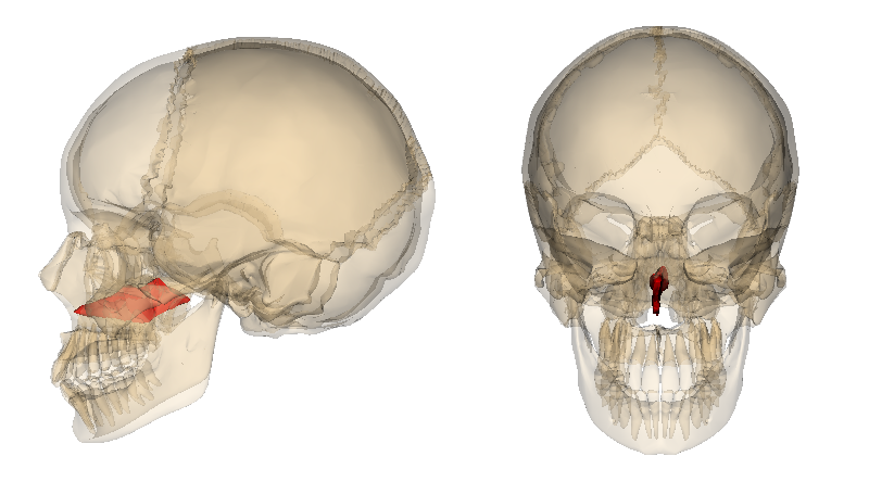 Vomer bone from Anatomography maintained by Life Science Databases(LSDB).